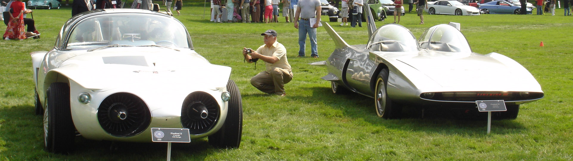 Gm Firebirds II and III